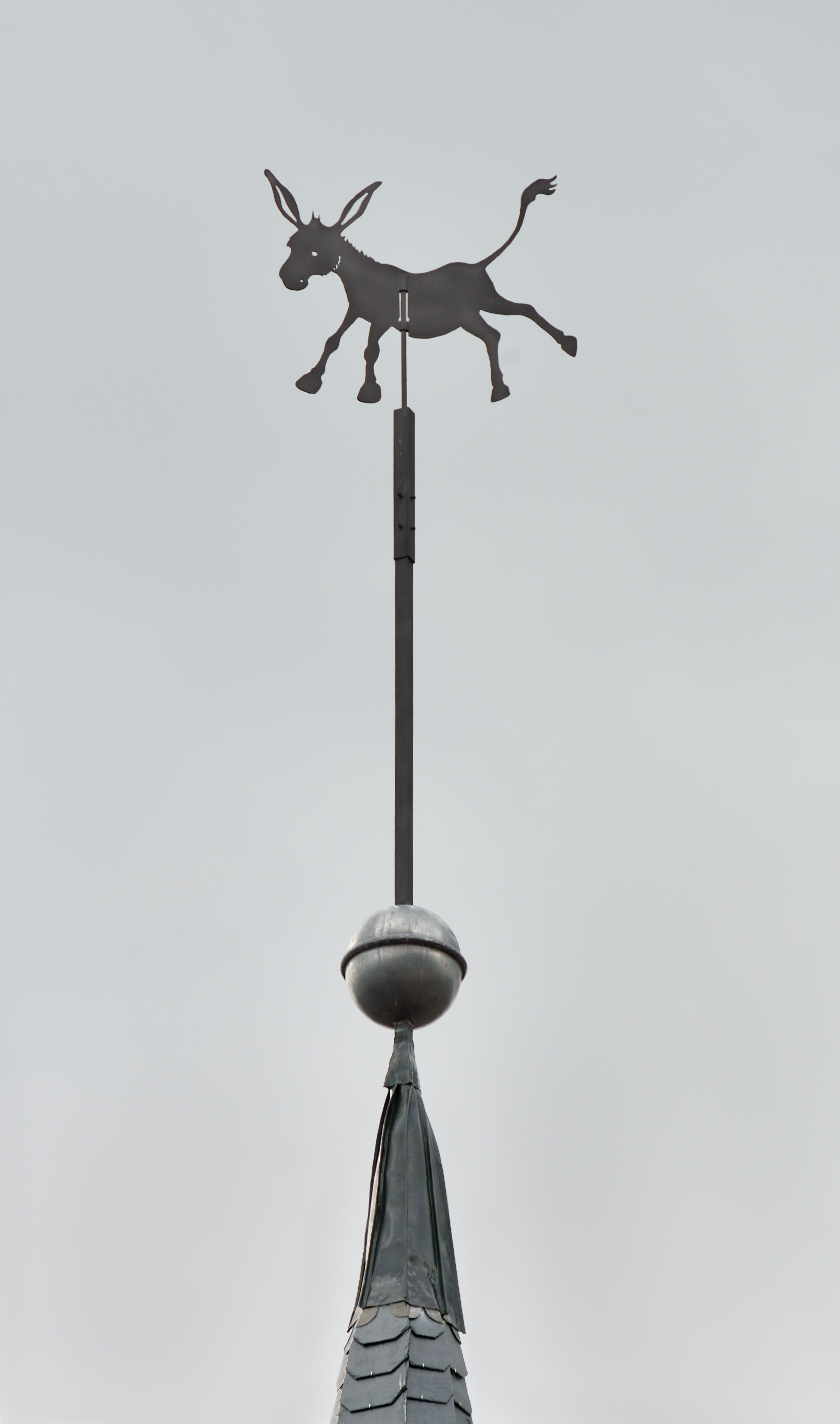 Luxembourg, Diekirch: old Saint Lawrence church: spire with a donkey, symbol of the city of Diekirch.